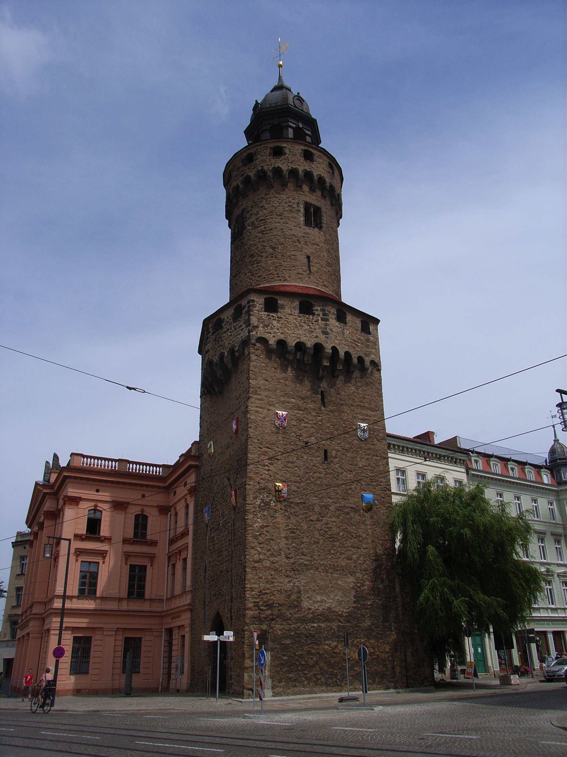 Wall tower Reichenbacher Turm with restored coat of arms 2011 in Goerlitz, Saxony